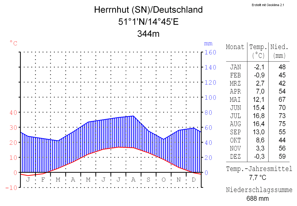 climate chart in the format by Walter and Lieth, metric, °Celsisus and millimeters, made with Geoklima 2.1